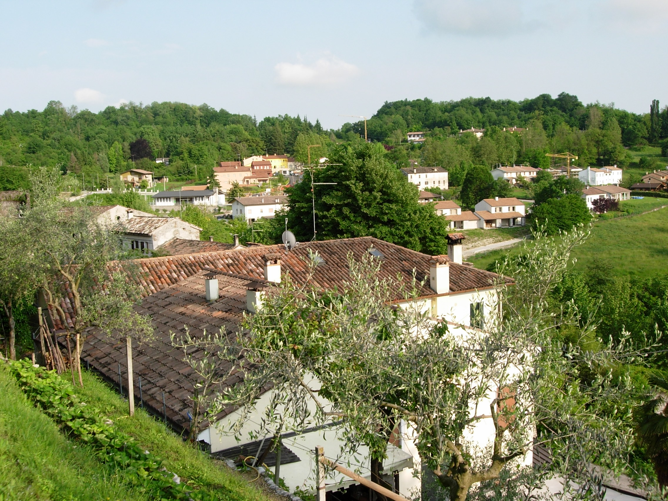 Collalto, Susegana's fraction, seen from its castle